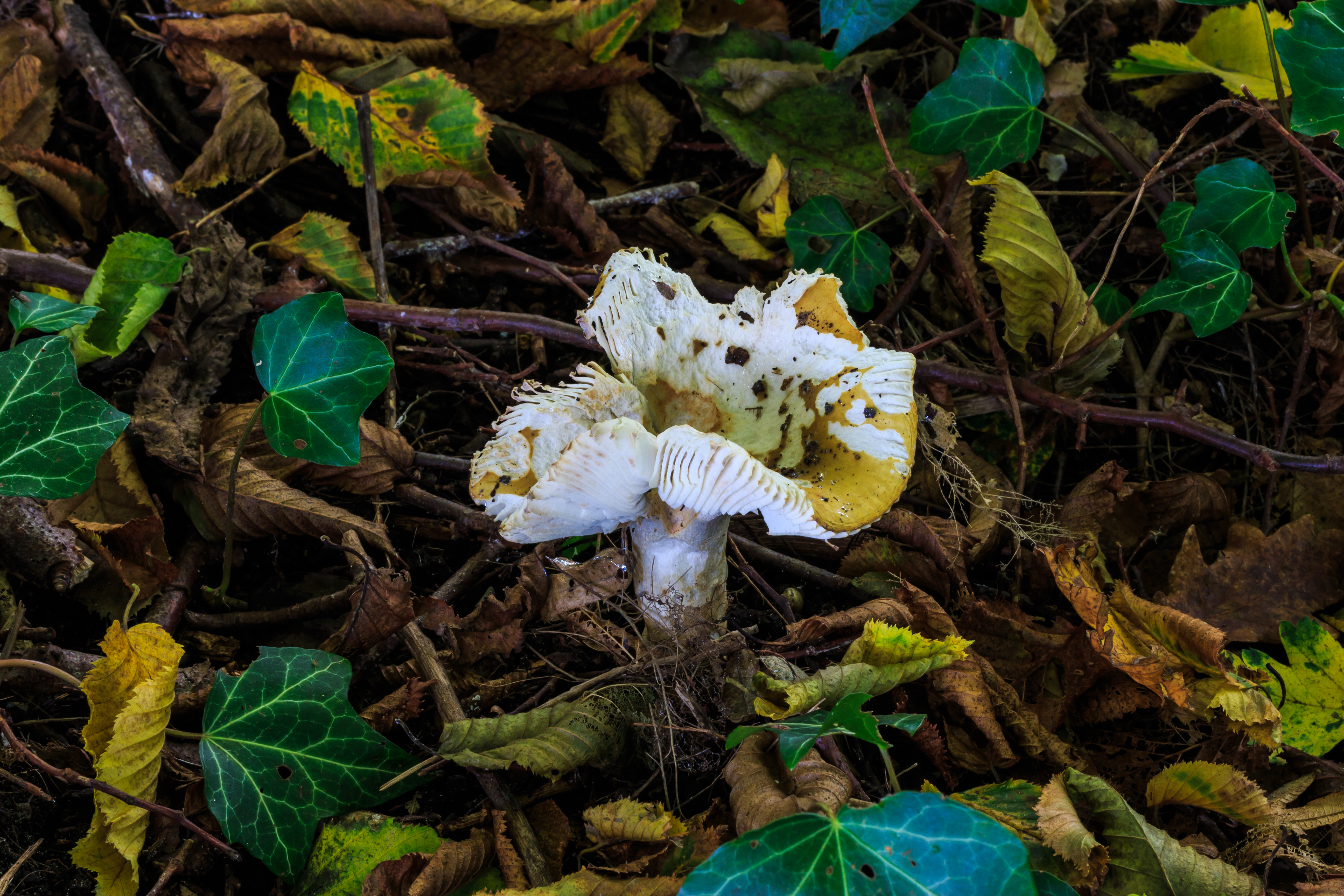 Russula ochroleuca. Location, Hortus (Haren, Groningen). Netherlands.